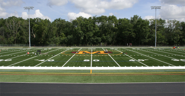 Completed Duffy Memorial Stadium, Montini Catholic High School, Lombard, IL